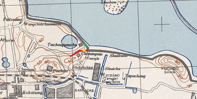 Map of Nanjing, China.Printed by the British War Office / US Army Map Service.